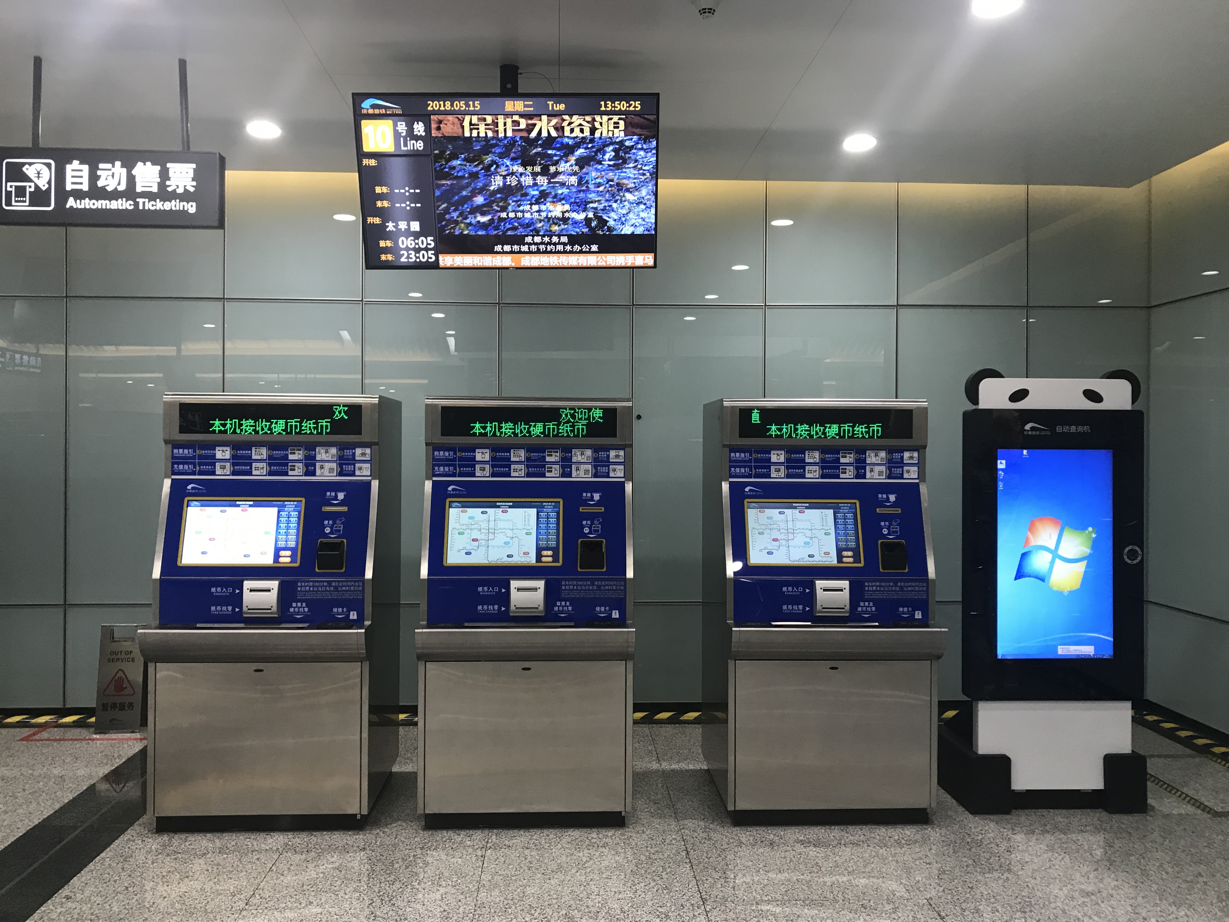 TVM of Line 10 in Terminal 2 of Shuangliu International Airport Station, Chengdu Metro